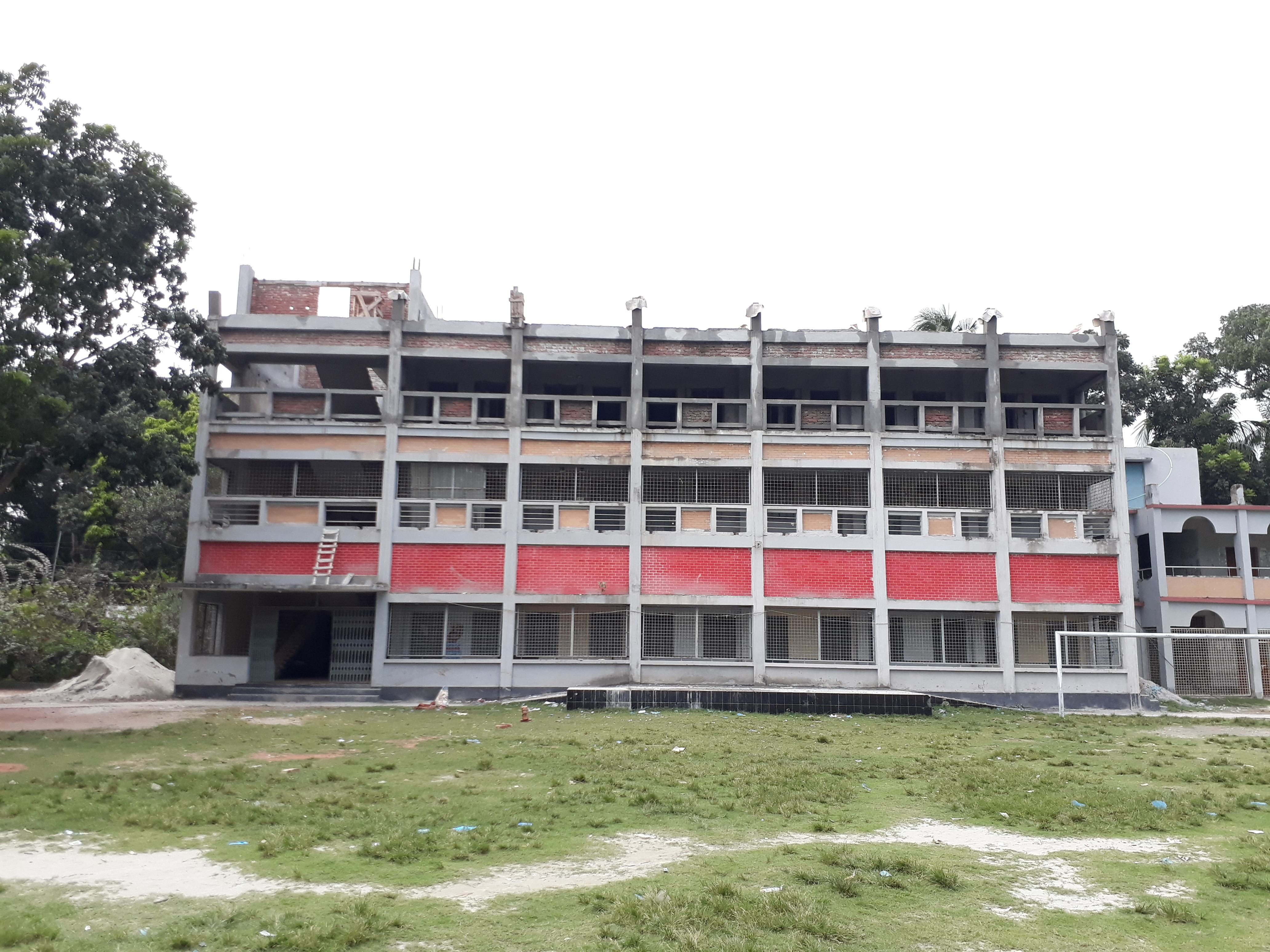 Auditorium of Model School